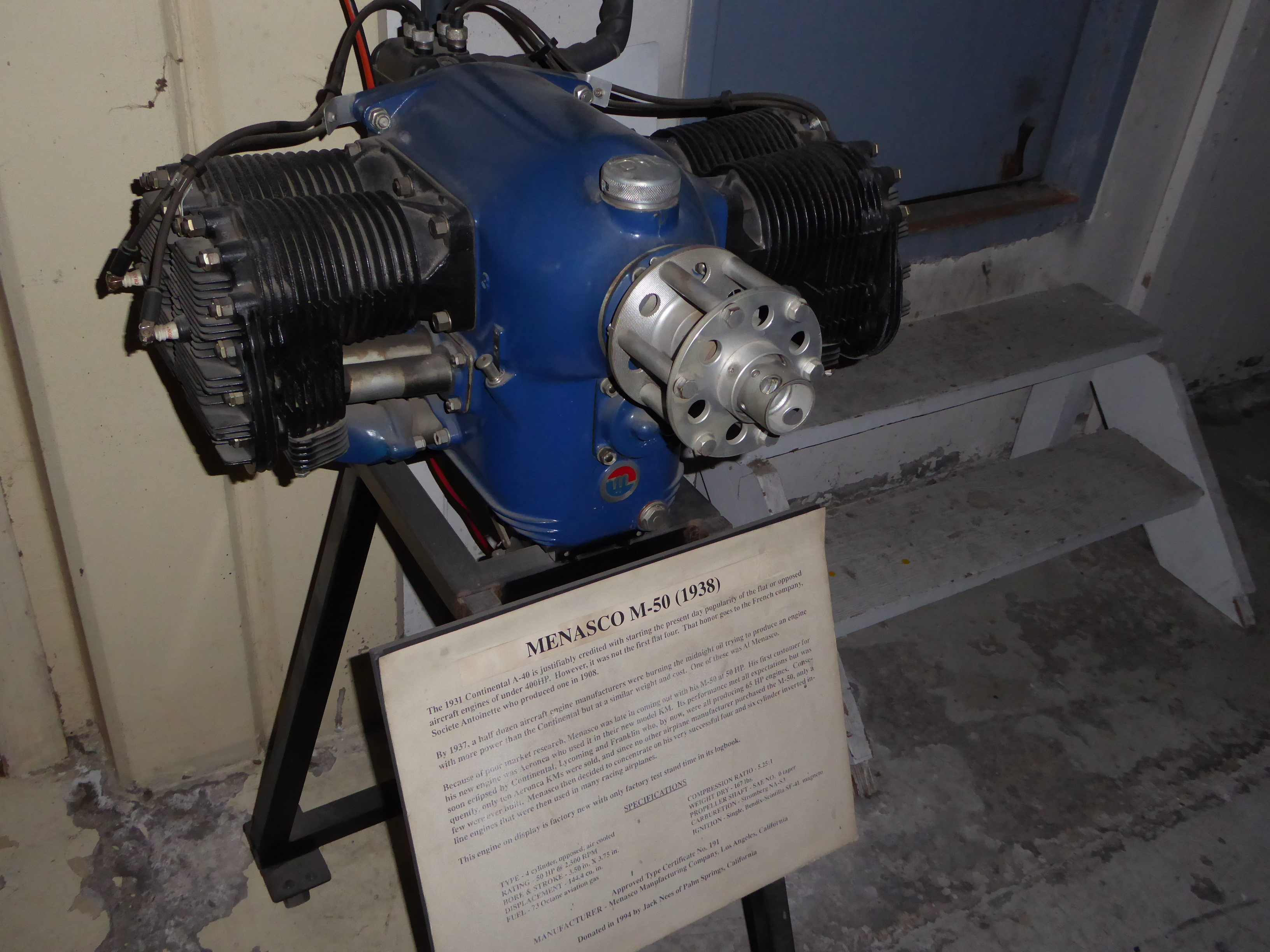 Menasco M-50 (1938) aircraft engine- San Diego Air & Space Museum annex Gillespie Field